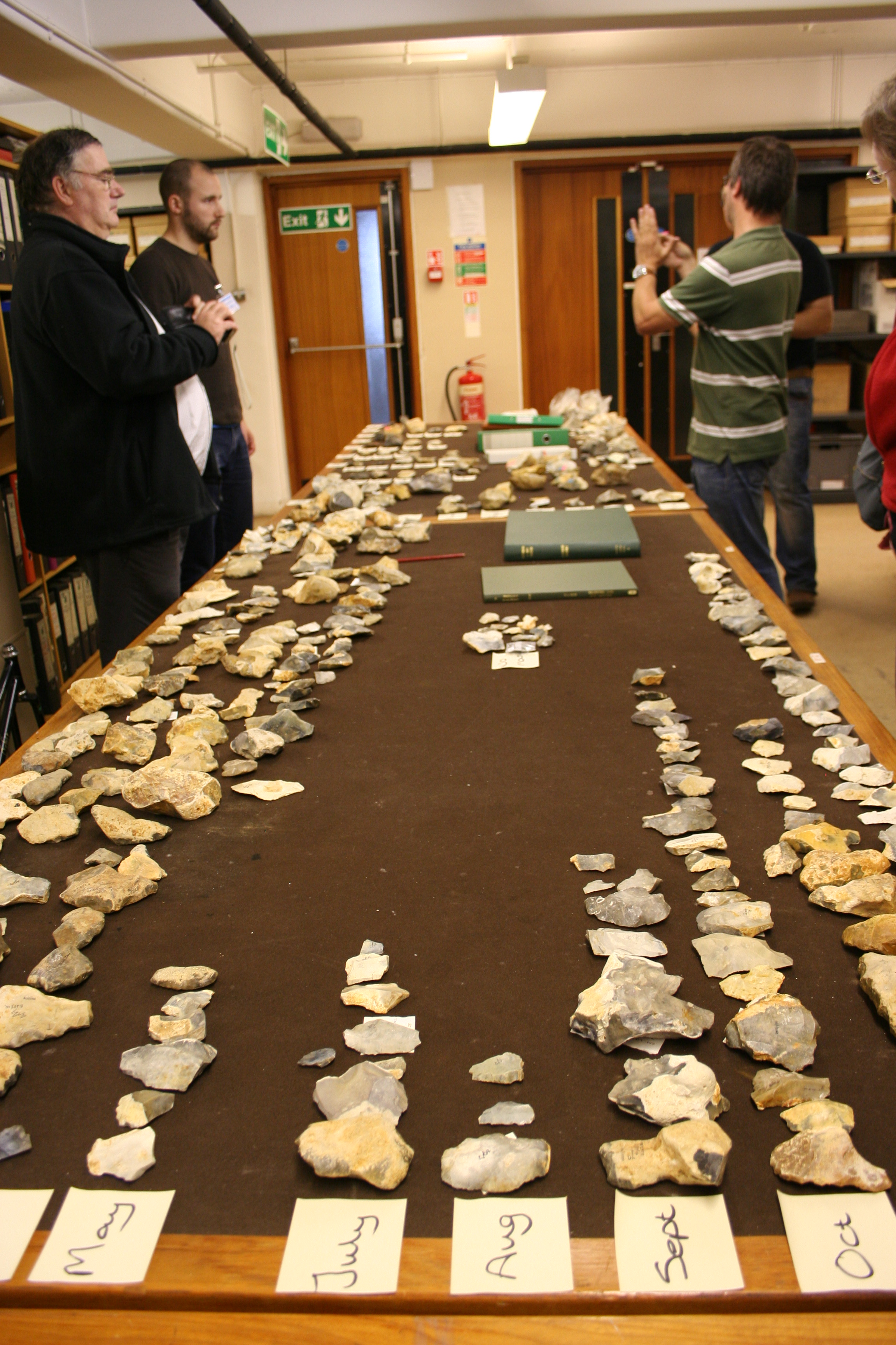 Paleolithic flint finds from Caddington, belonging to the Luton Museum, being re-assessed at Franks House, British Museum, October 2011.